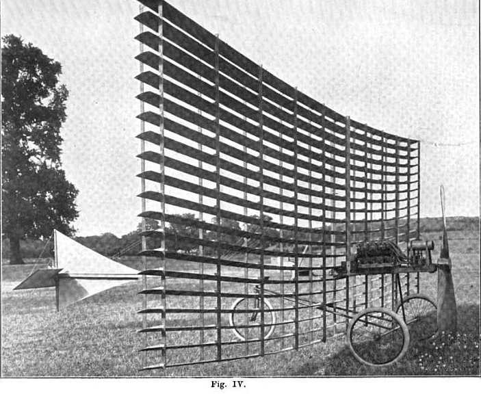 Full-sized multiplane machine, large enough to carry a passenger, built in 1904. Similar to his 1893 experiment. Total weight with a man on it was about 600 lbs. The machine lifted into the air when it reached a speed of 50 ft./sec. Mr. Phillips found it to be unstable longitudinally (front to back).